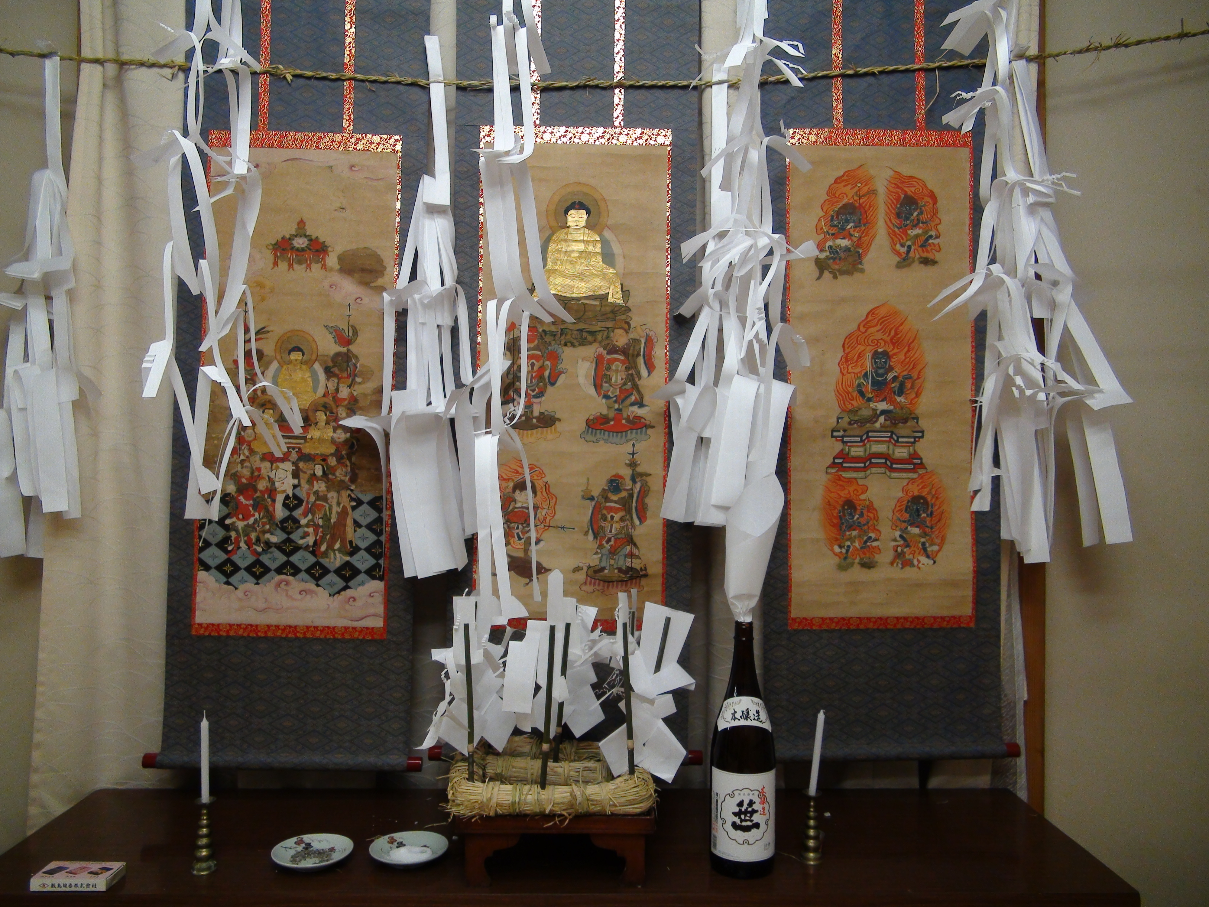 Mushono-Dainembutsu dance hanging scroll of ritual(a dance with an invocation to the Buddha)